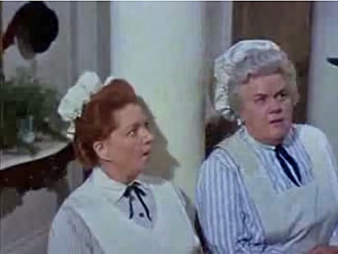 Screenshot of Hermione Baddeley (Ellen, the maid) and Reta Shaw (Mrs.Brill, the cook) from the trailer for the film Mary Poppins